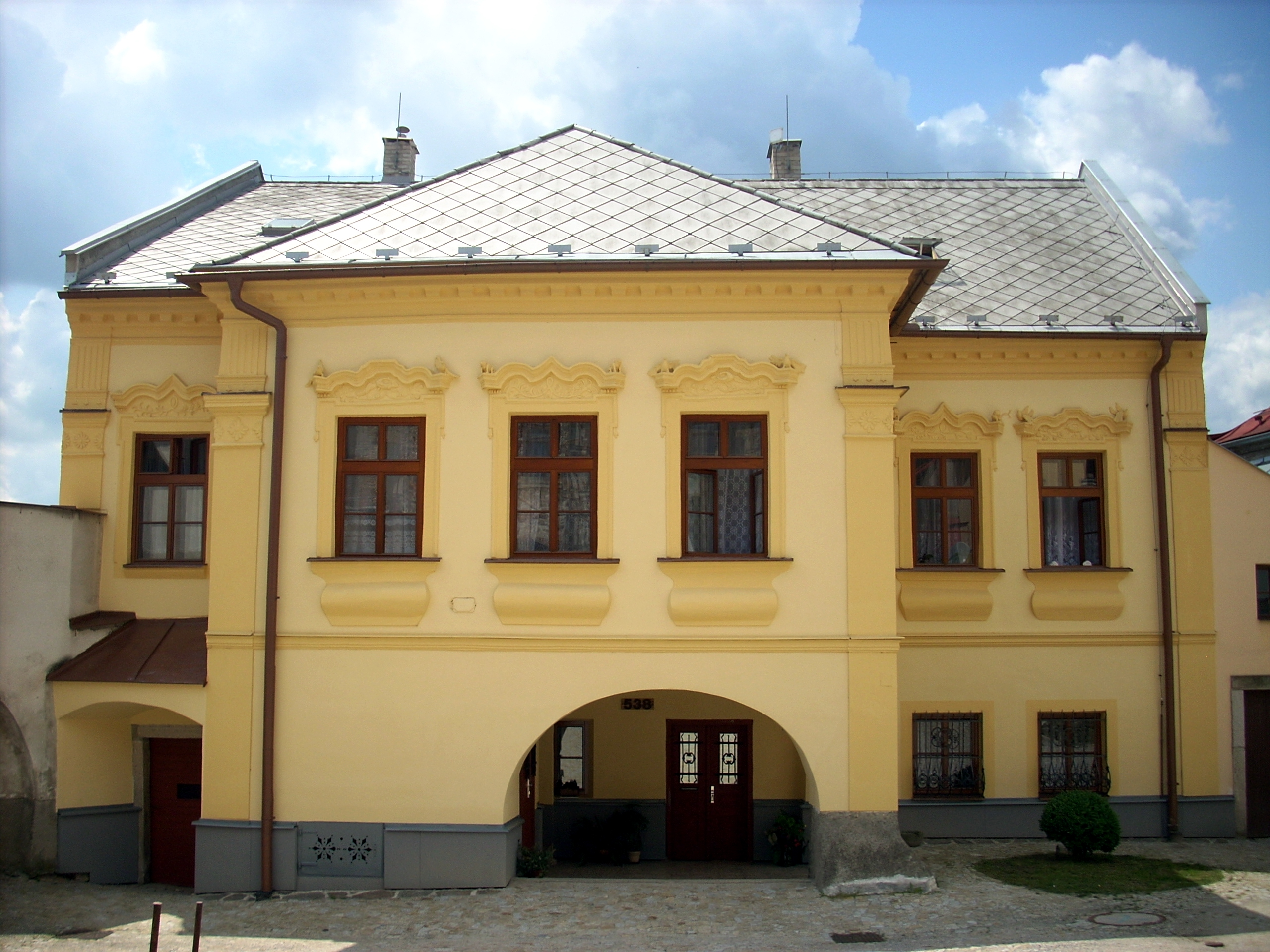 Polná, 538 Charles square - Bělohlávek´s house